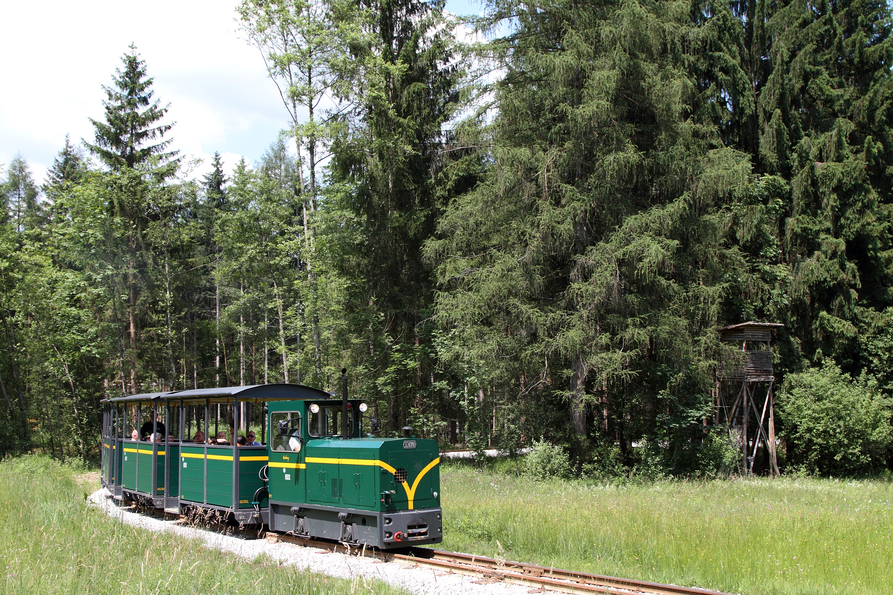 The green train of the Museumsfeldbahn Großgmain in the woods.